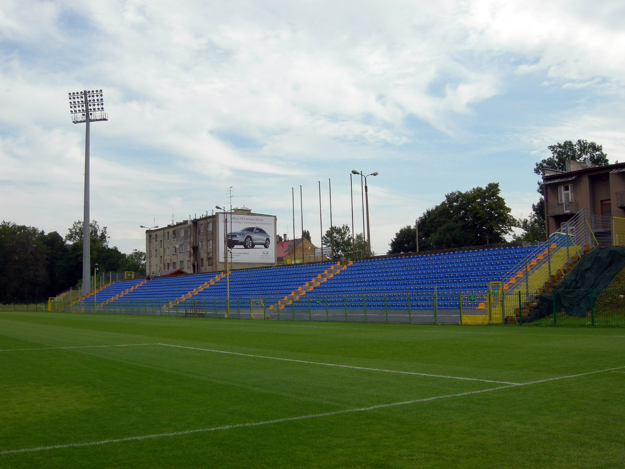 Stadion Miejski in Bielsko-Biała – uncovered east stand.